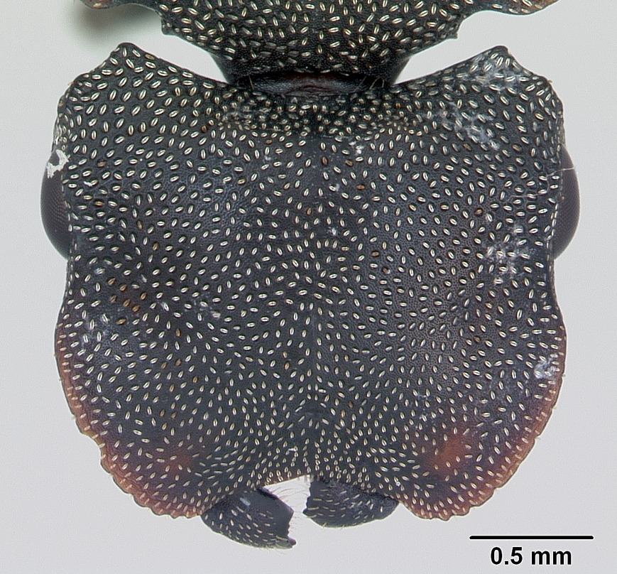 Head view of ant Cephalotes borgmeieri specimen casent0173664.